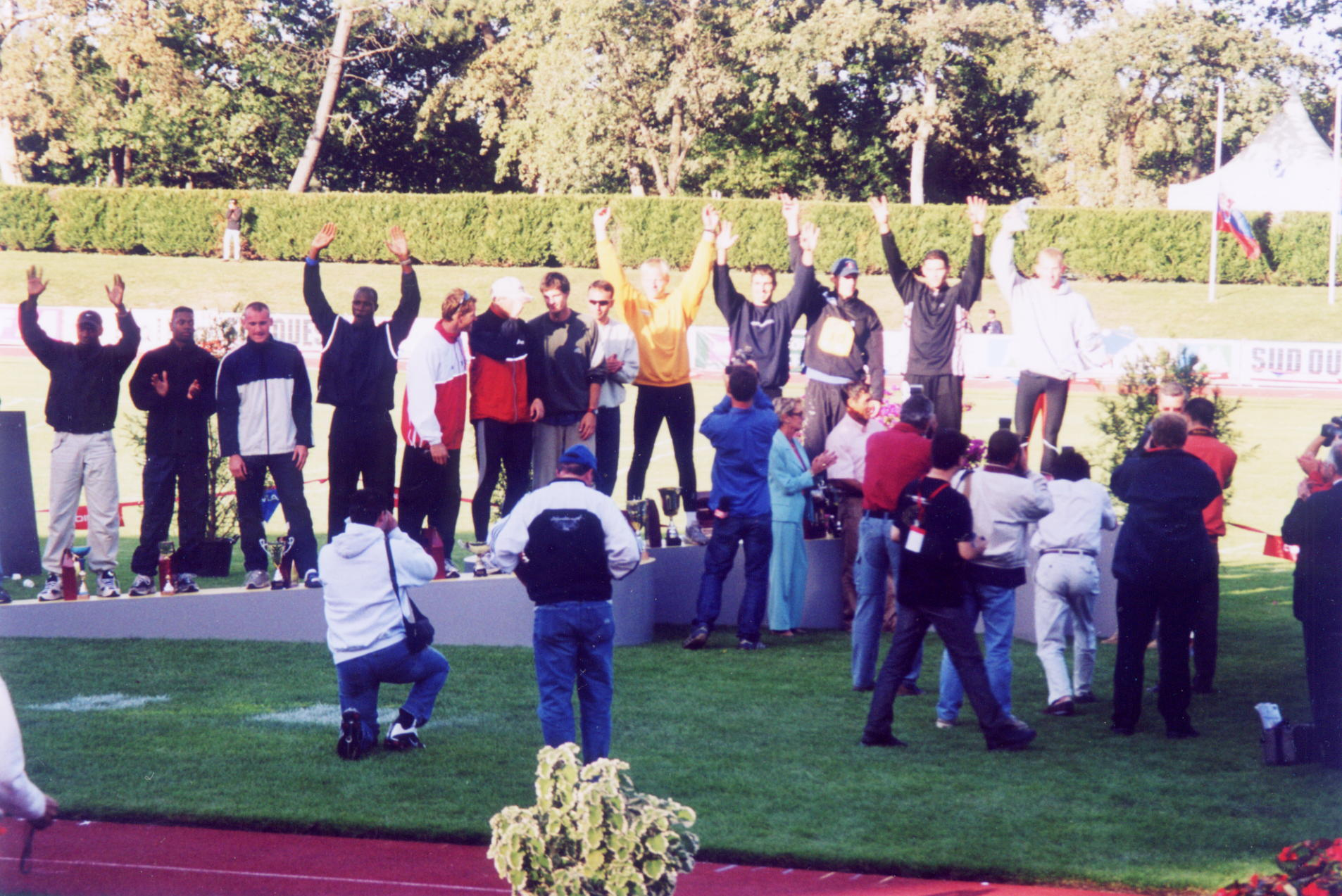 Podium masculin du Décastar 2001 à Talence. 1.Oleksandr Yurkov (UKR), 8324 pts 2. Laurent Hernu (FRA), 8213 pts 3. Benjamin Jensen (NOR), 8153 pts 4. Stefan Schmid (ALL), 8081 pts 5. Jiri Ryba (RTC), 7968 pts 6. Jan Podebradsky (RTC), 7950 pts 7. Attila Zsivoczky (HON), 7895 pts 8. Chiel Warners (HOL), 7826 pts 9. Klaus Ambrosch (AUT), 7778 pts 10. Bruno Lambese (FRA), 7591 pts